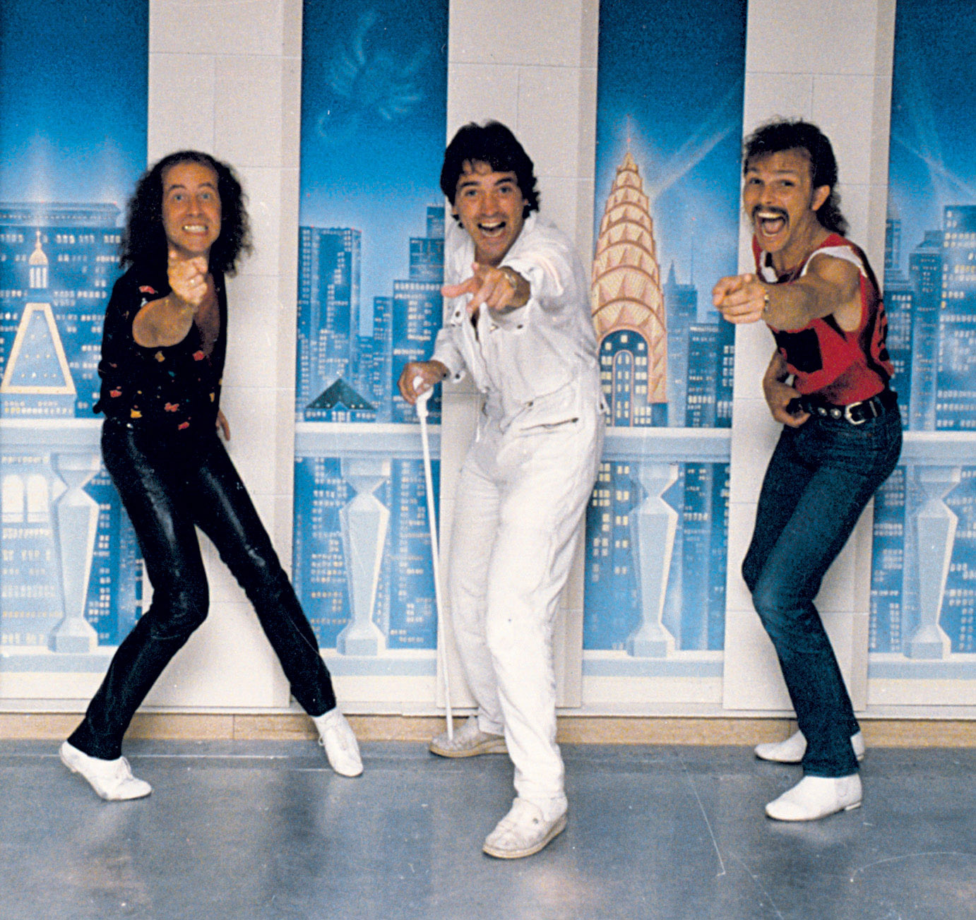 Rainer Maria Latzke with Klaus Meine and Rudolf Schenker in front of Latzke´s mural in the Scorpion´s studio in Hannover,Germany